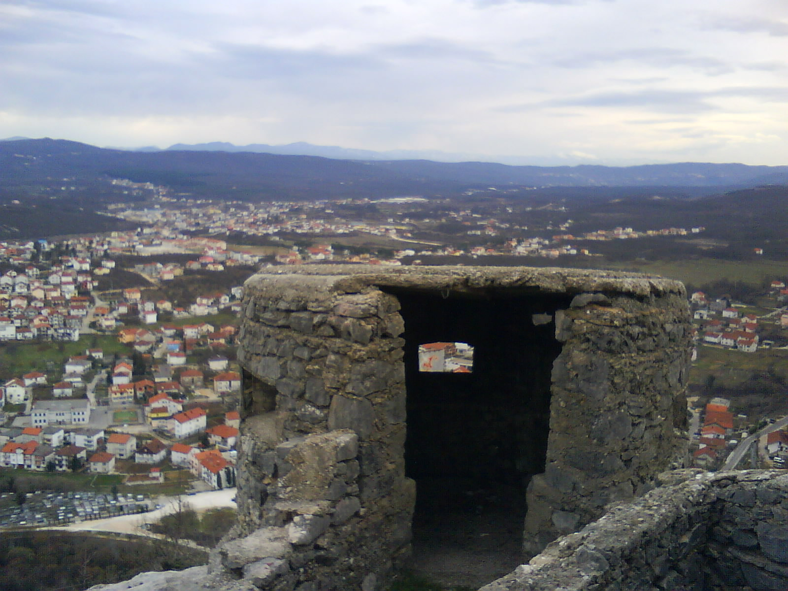 Gun shooting position at Italian fort on Ćavar hill above Široki Brijeg